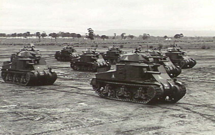 PUCKAPUNYAL, VIC. 1942-06-20 TO 1942-06-21. VIEW OF GENERAL GRANT M3 MEDIUM TANKS MASSED, MANOEUVRING ON THE PARADE GROUND BEFORE PASSING THE SALUTING BASE AT A REVIEW OF THE 1ST AUSTRALIAN ARMOURED DIVISION BY GENERAL SIR THOMAS BLAMEY, COMMANDER-IN-CHIEF ALLIED LAND FORCES.